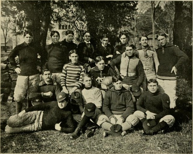 Official photograph of the 1897 North Carolina Tar Heels football team